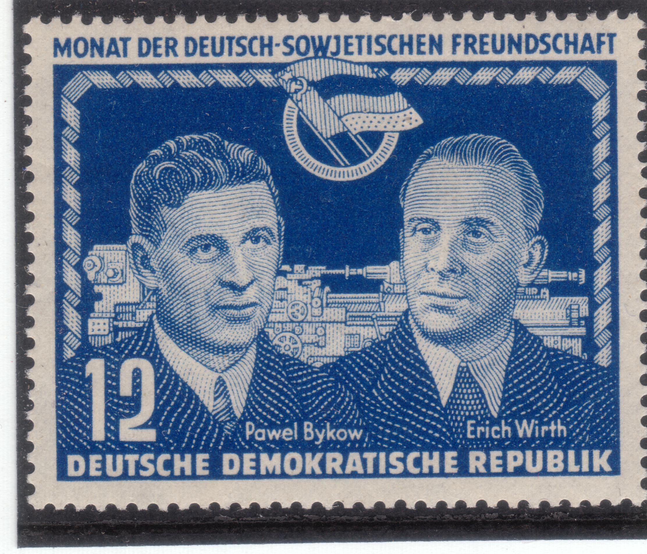 Month of the Soviet-German Friendship Graphic designer: Gruner Ausgabepreis: 12 Pf First Day of Issue / Erstausgabetag: 15. Dezember 1951 Michel-Katalog-Nr: 296